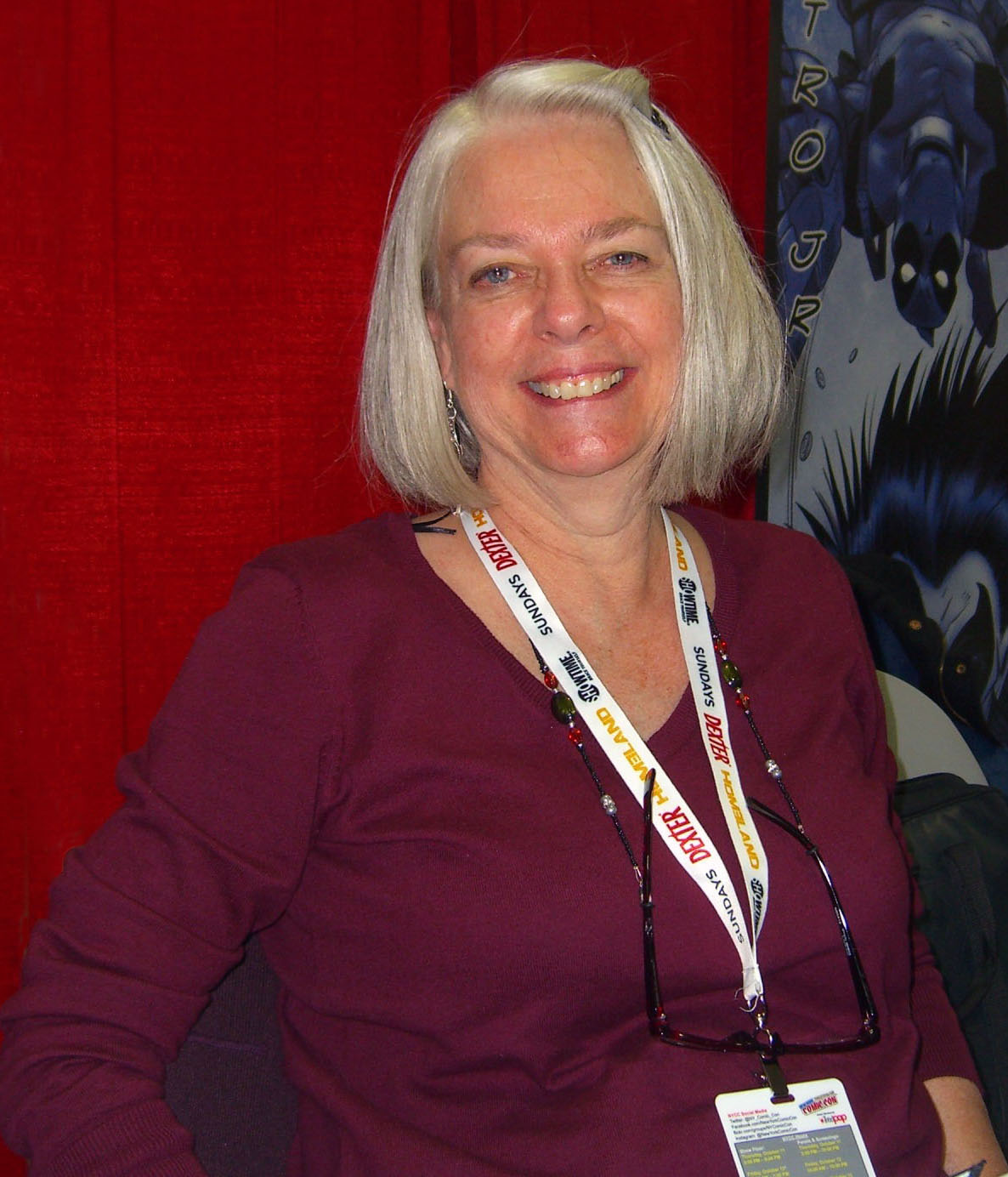 Comics creator Louise Simonson on Day 3 of the 2012 New York Comic Con, Saturday October 13, 2012 at the Jacob K. Javits Convention Center in Manhattan. This photo was created by Luigi Novi. It is not in the public domain, and use of this file outside of the licensing terms is a copyright violation.